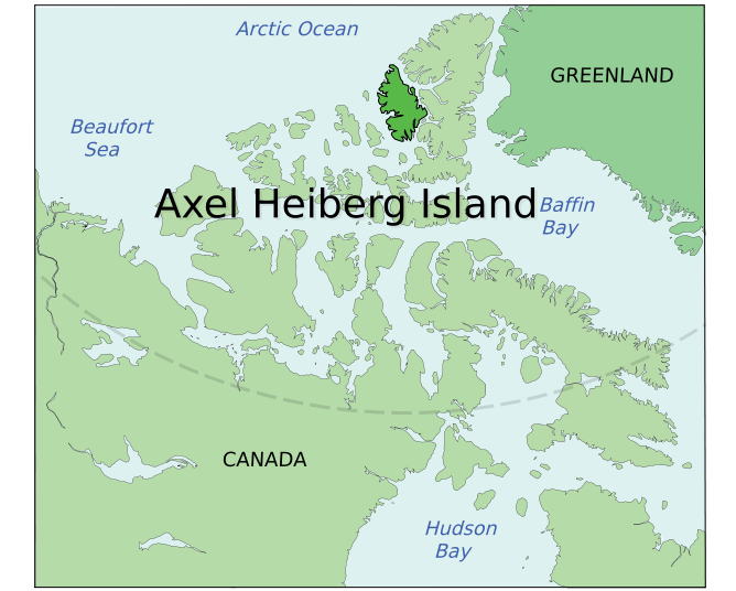 Created based on images from the CIA's World Fact Book.